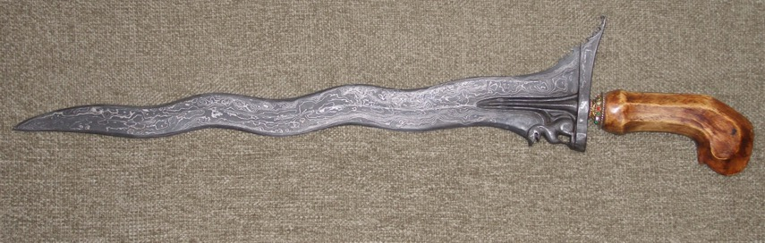 Balinese kris (or keris), a type of dagger found in Malaysia, Indonesia and the southern Philippines. The German caption from the original says "Kris aus Yogyakarta (Java)- Dapur Carubuk", though.